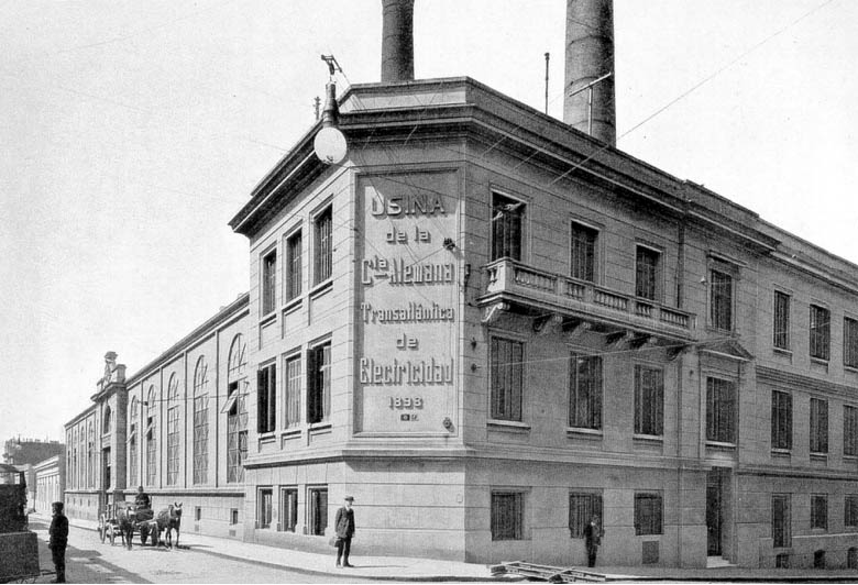 Buenos Aires Compañía Alemana Transatlántica de Electricidad CATE - Usina Paraguay y Reconquista. Ca 1910